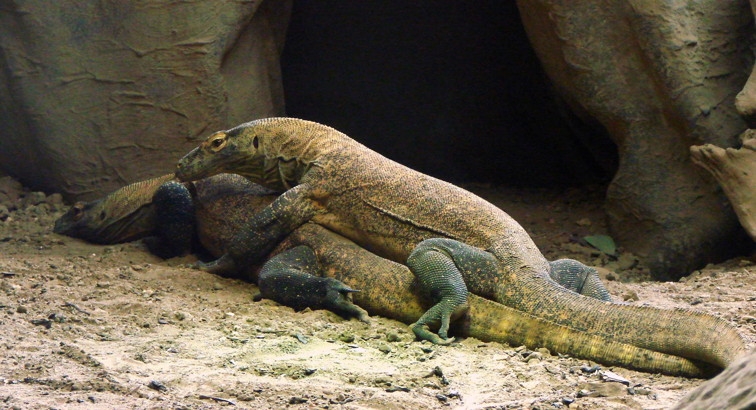 Young Komodo dragons ( Varanus komodoensis). Thoiry zoo.